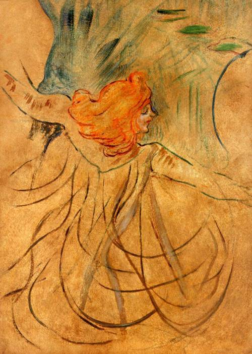 Loïe Fuller sketched by Henri de Toulouse-Lautrec